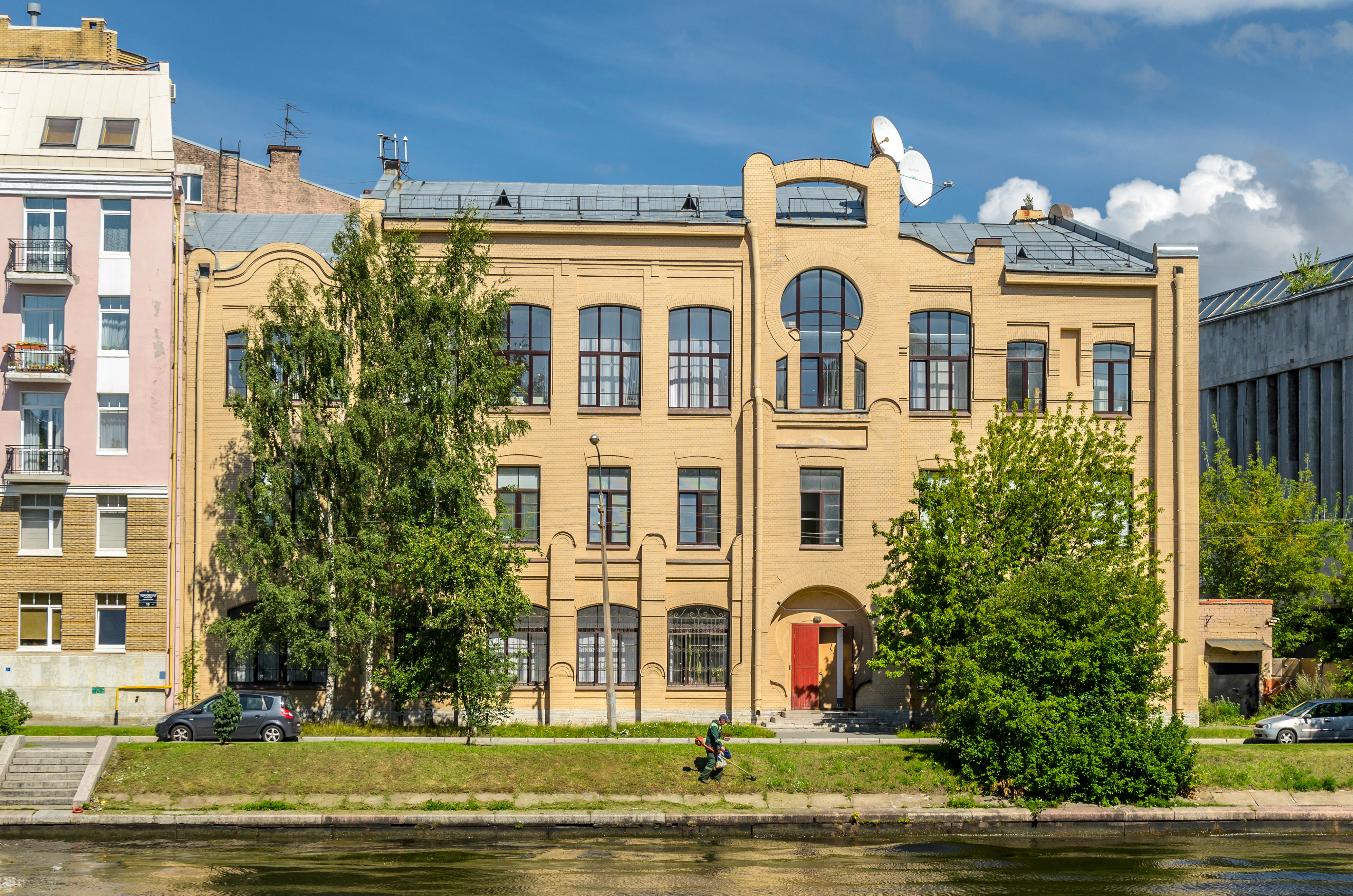 Mariinsky Orphanage / Institute of applied astronomy at Zhdanovskaya Embankment in Saint Petersburg